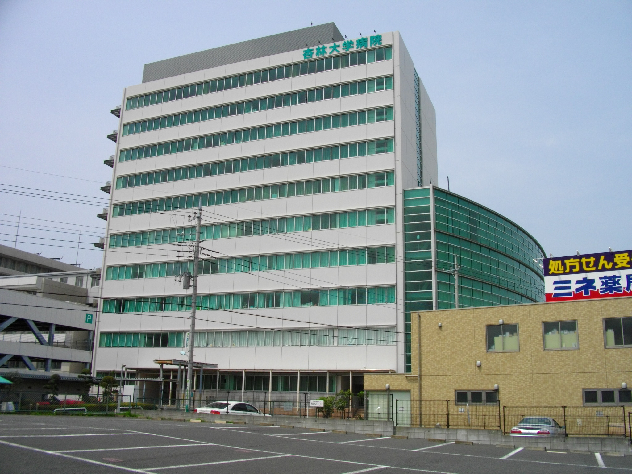 Kyorin University Hospital